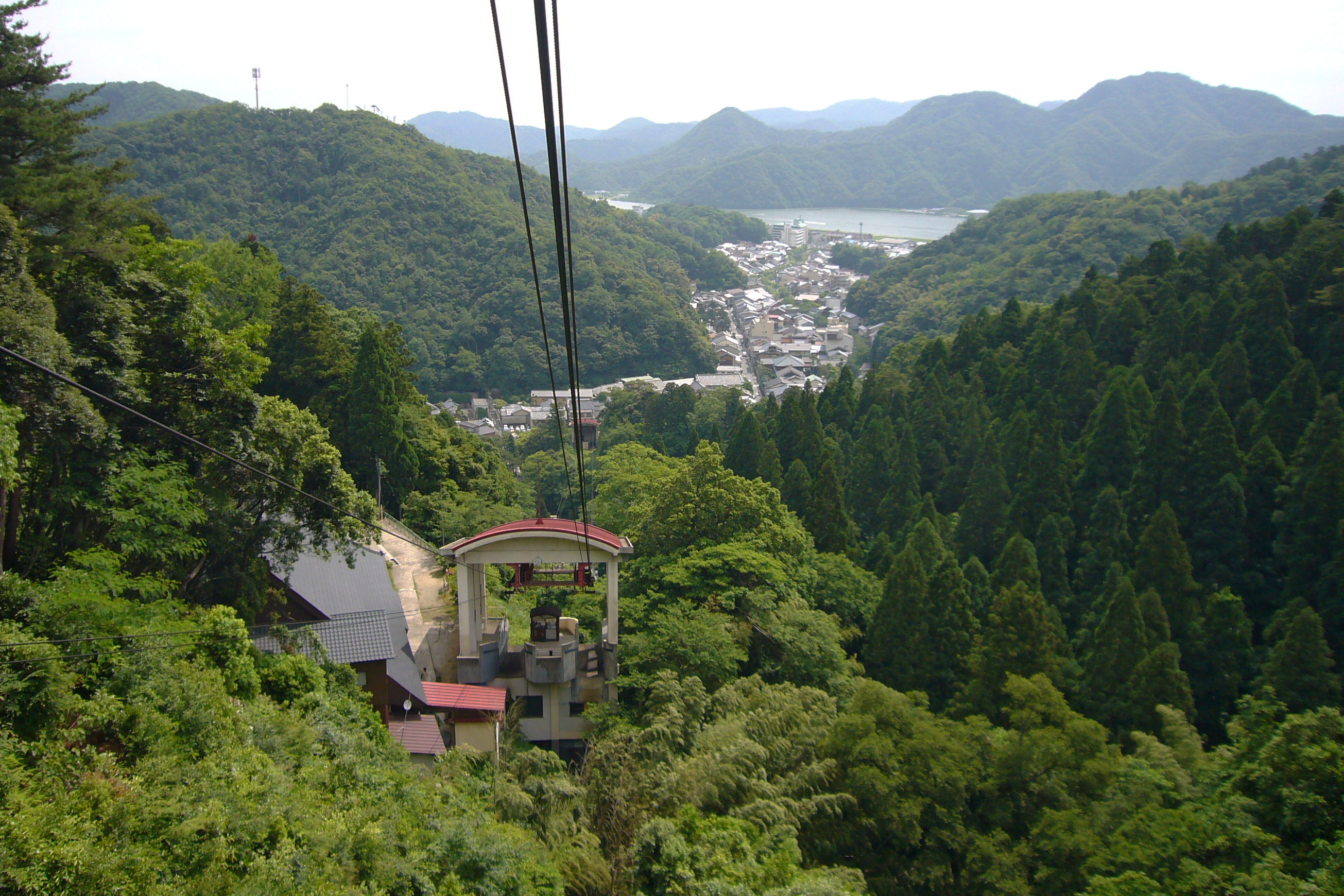 Kinosaki Ropeway, Toyooka, Hyogo prefecture, Japan